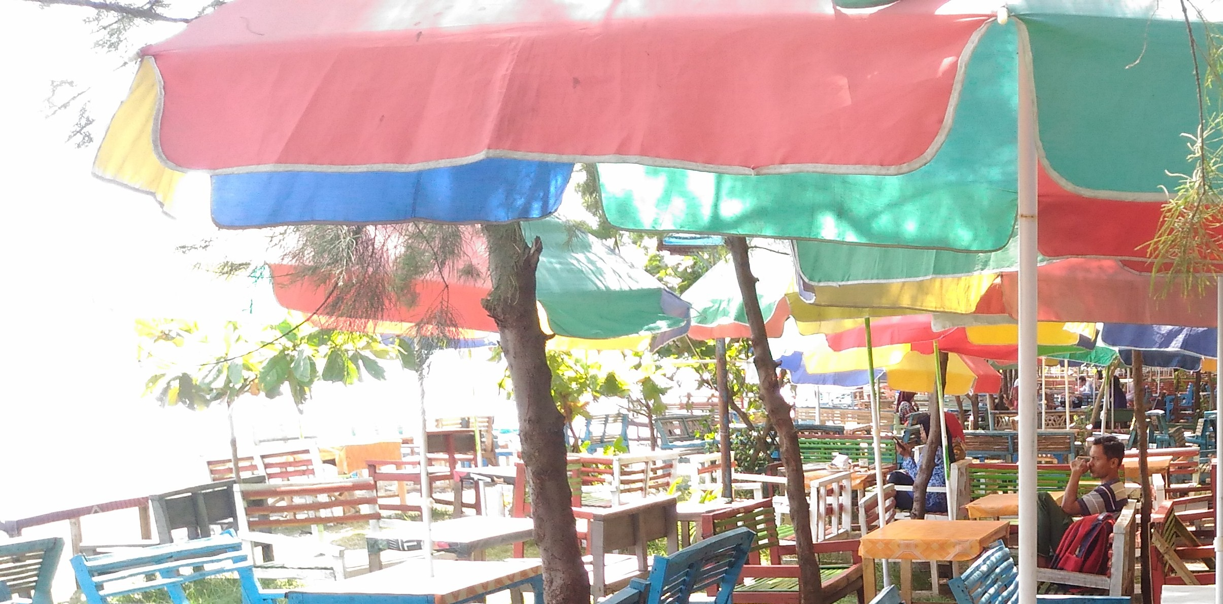 Widuri Beach, 17-8-2017. The benches where to eat various snacks on the beach.